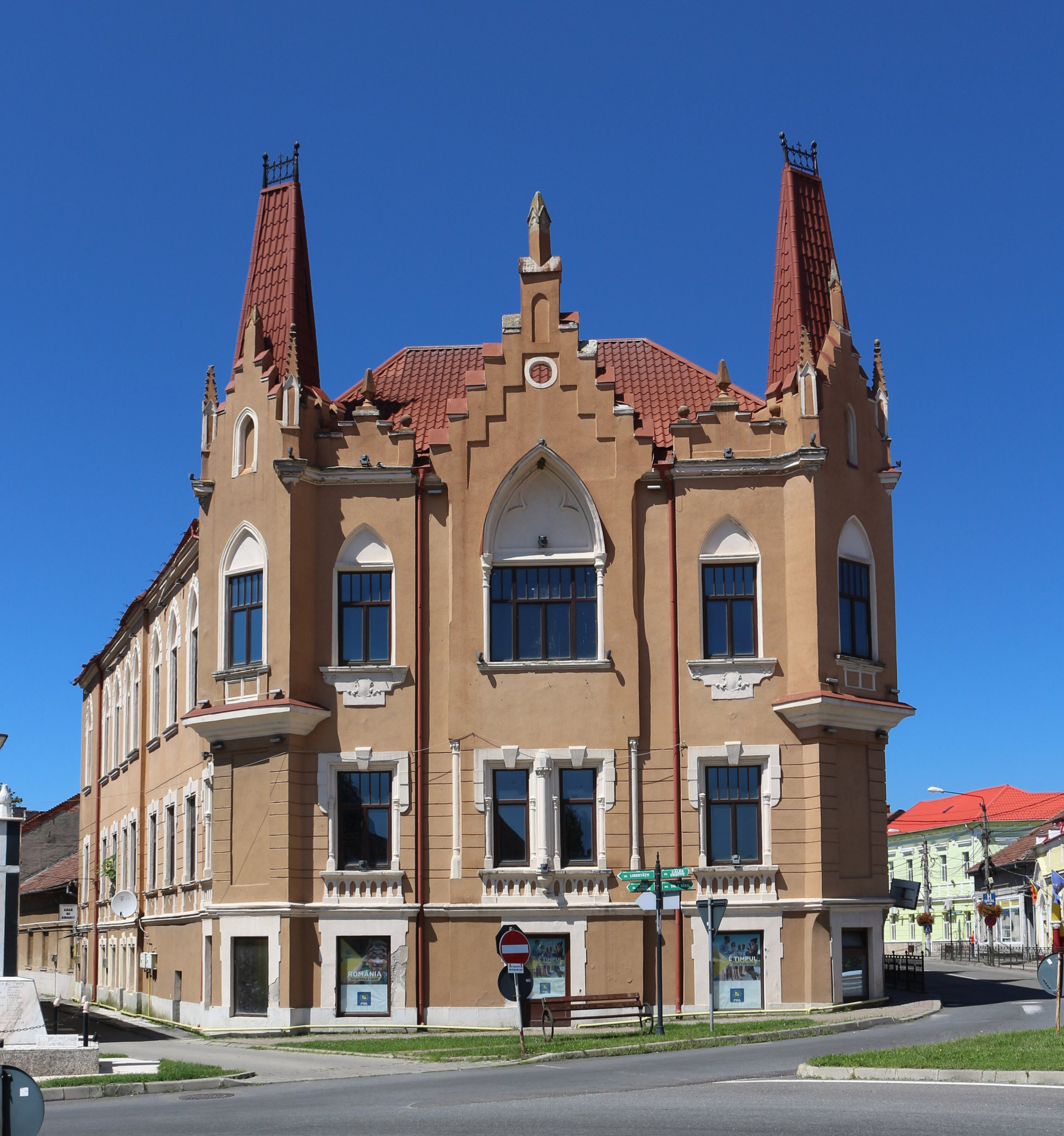 Former New House of Savings, Caransebeș, Mihai Viteazul St., no. 42, built c.1900.